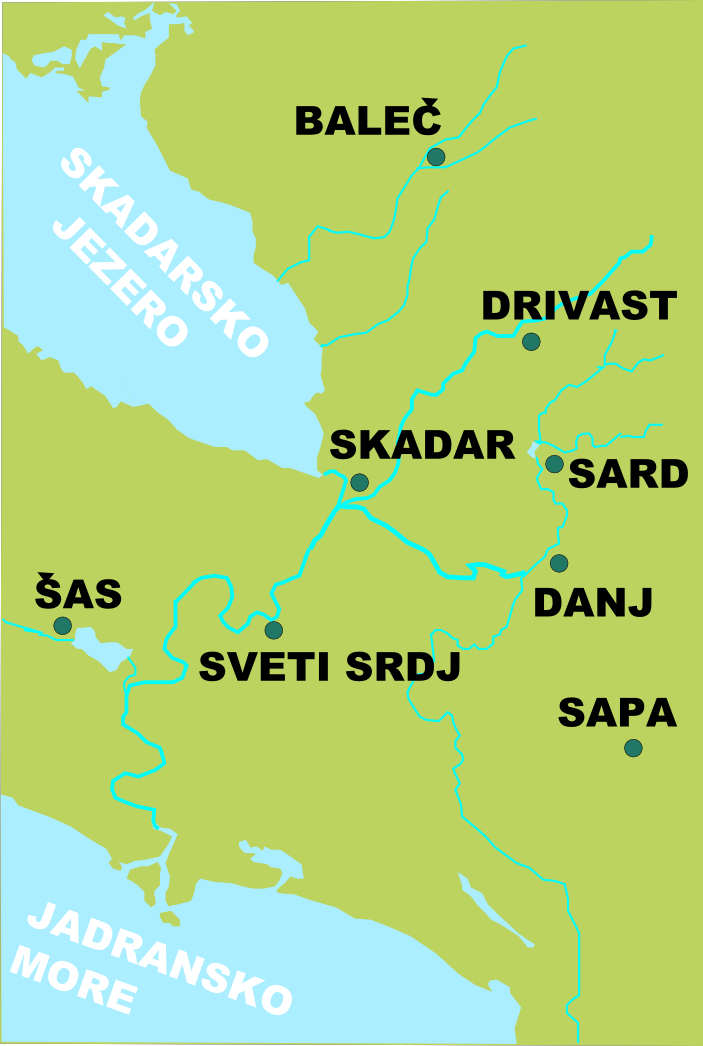 City of Shkodra in the Middle Ages, with surrounding areas: Drivast, Sard, Danj, Baleč, Sapa …